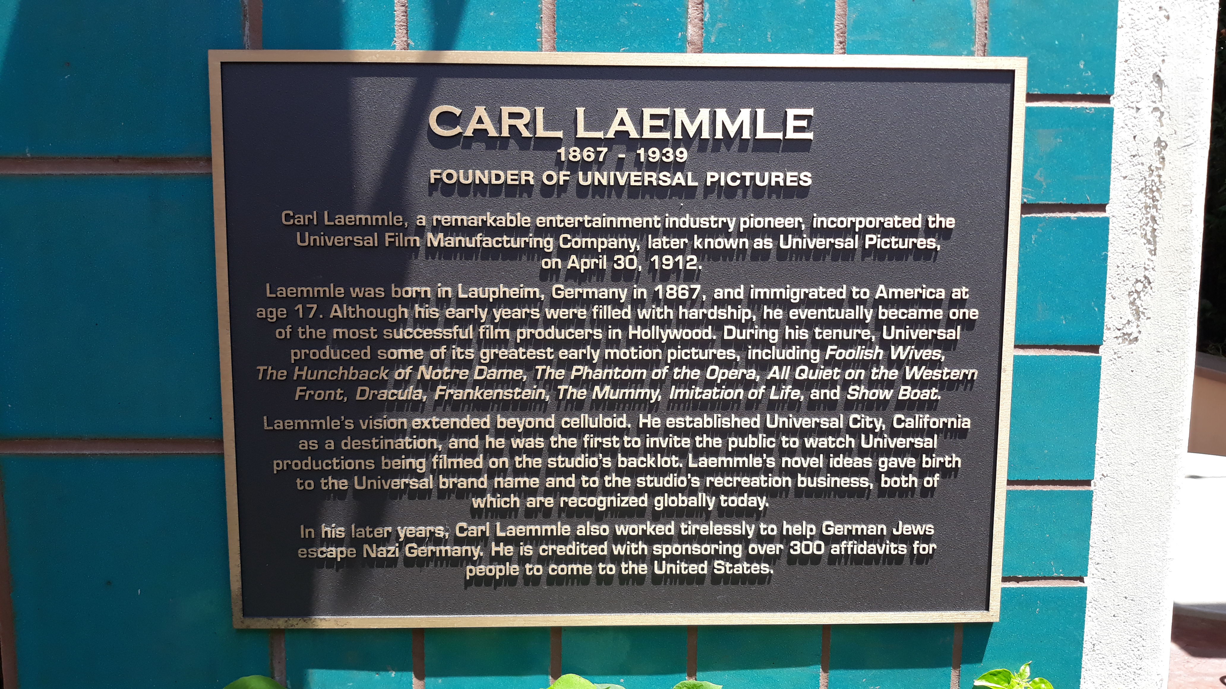 Carl Laemmle plaque at Universal Studios